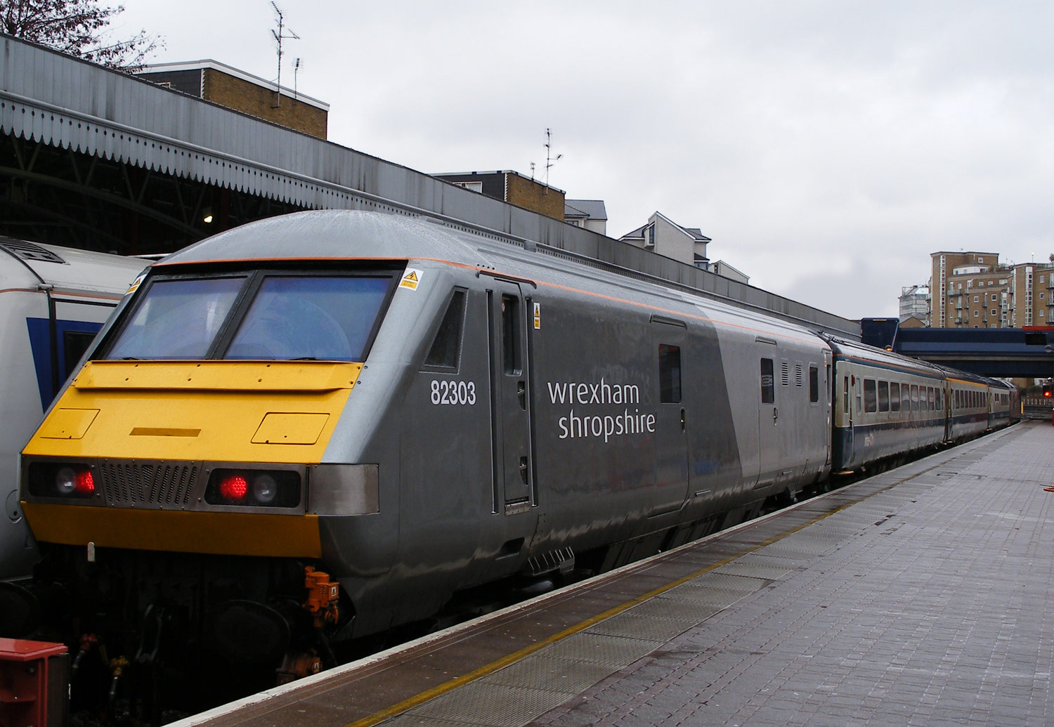 Shropshire and Wrexham DVT (driving van trailer) at London Marylebone 13 Dec 08